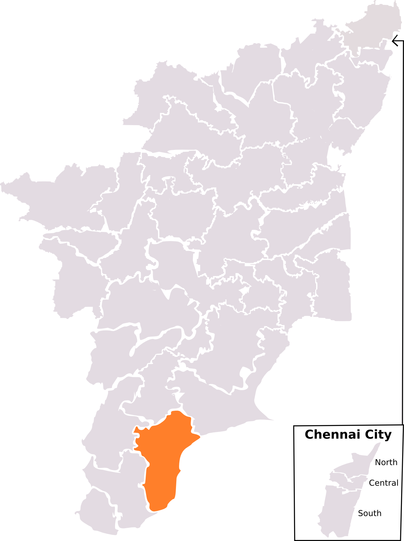 Lok Sabha Election map for Tamil Nadu. Map is drawn using Inkscape and is based on ECI website.